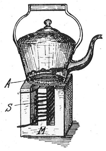 Early induction hob cooker (Rankin Kennedy, Electrical Installations, Vol II, 1909).jpg